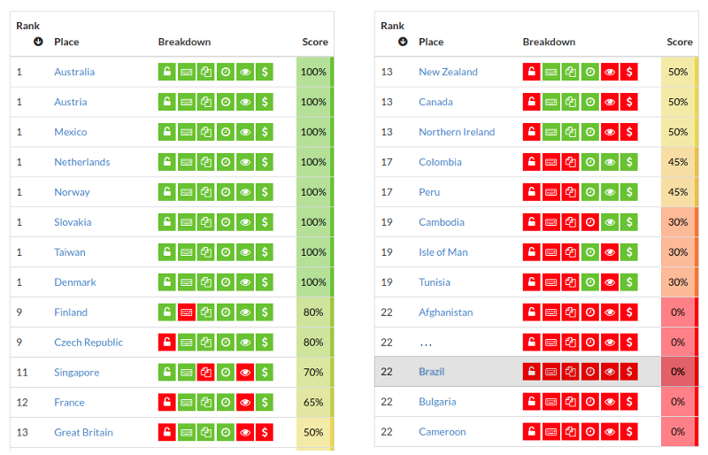 Open Data Index table of postal codes: free license in database of postcodes/zipcodes and the corresponding spatial locations in terms of a latitude and a longitude (or similar). The data has to be available with open license for the entire country.